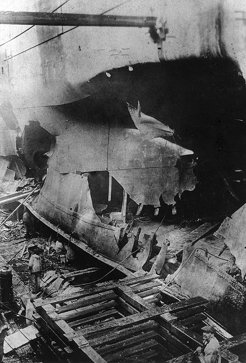 USS West Bridge (ID # 2888) In drydock at Brest, France, looking aft on the starboard side, showing the two torpedo holes received in a German submarine attack on 15 August 1918. Note the boiler visible in the aftermost hole. Courtesy of Chief Warrant Officer Keith L. Anderson, USN (Retired), 1974. U.S. Naval Historical Center Photograph.